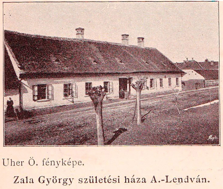 The sculptor György Zala's birthplace in Alsólendva.